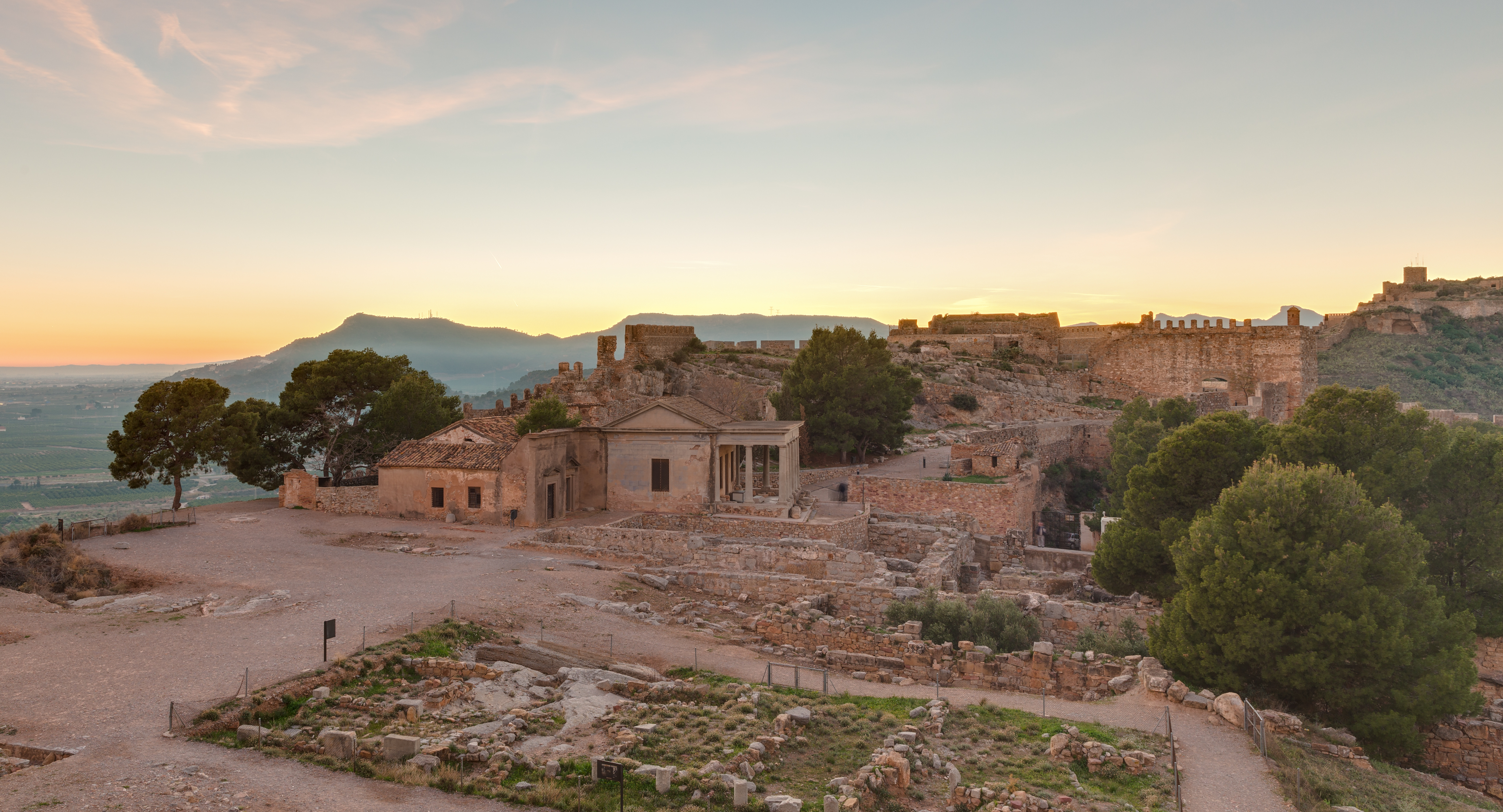 General view at dusk of the ruins of the castle of Sagunto, Valencia, Spain. Constructed in the 10th century on a site already used by the Iberians, the castle was renovated in the 18th and 19th centuries. Evidence of occupation by several civilisations has been found here: Iberians, Romans, Goths and Arabs.